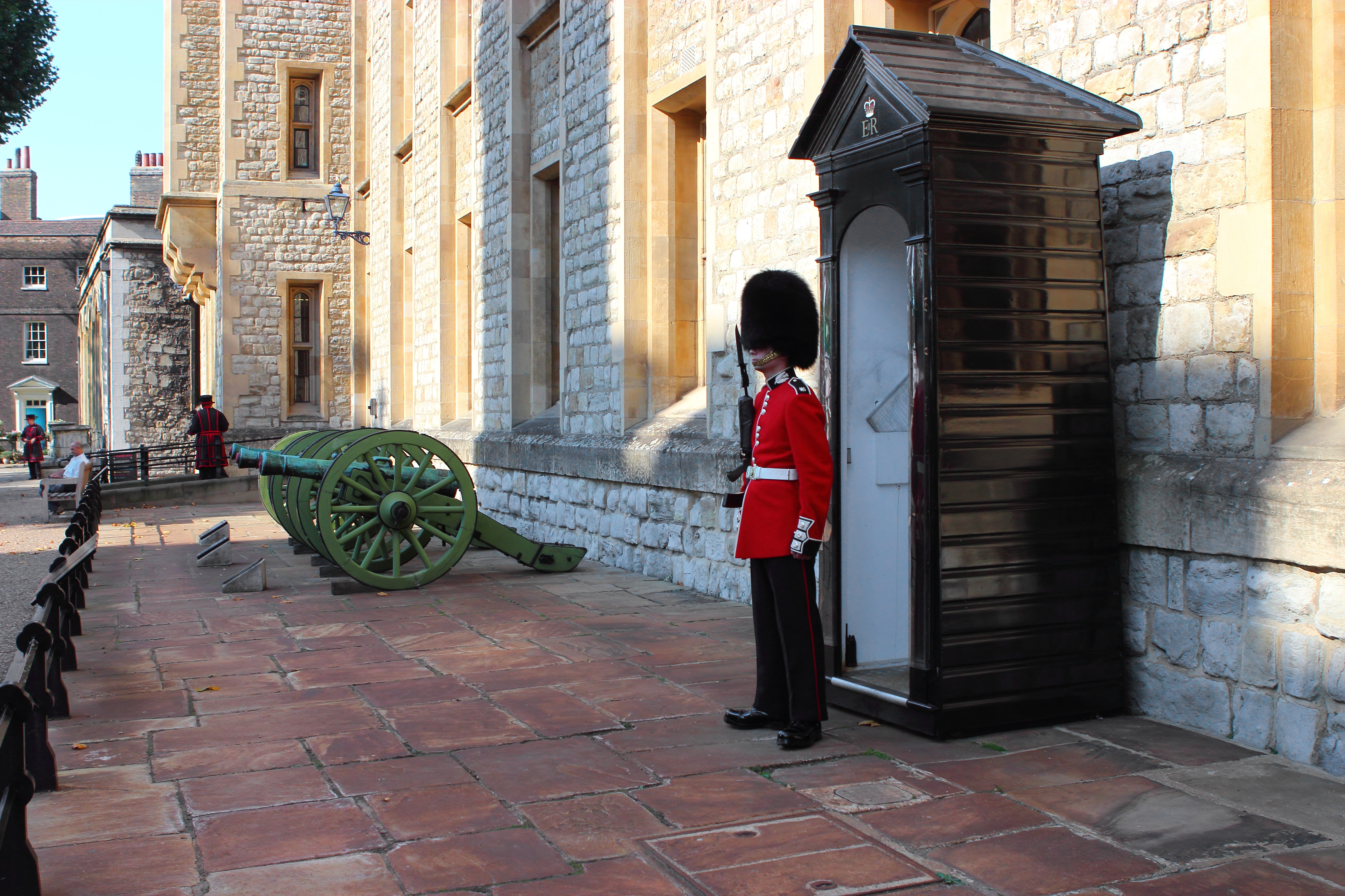 A Scots Guards sentry outside the Jewel House, Tower of London, England.